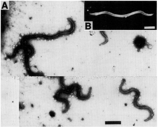 . (A) Transmission electron micrograph of negatively stained preparation. (B) Scanning electron micrograph. Bars = 1.0 CLm